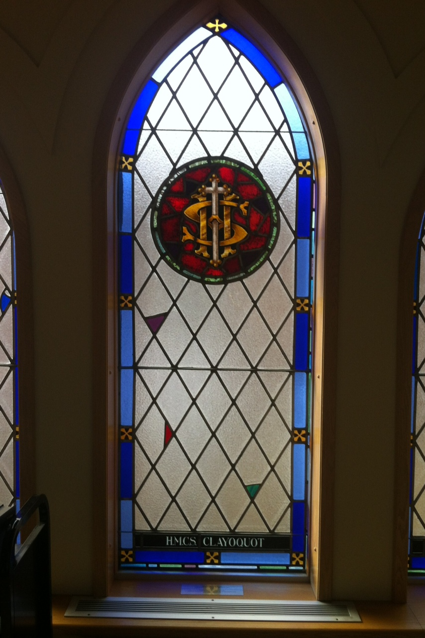 HMCS Cloyoquot window, CFB Halifax